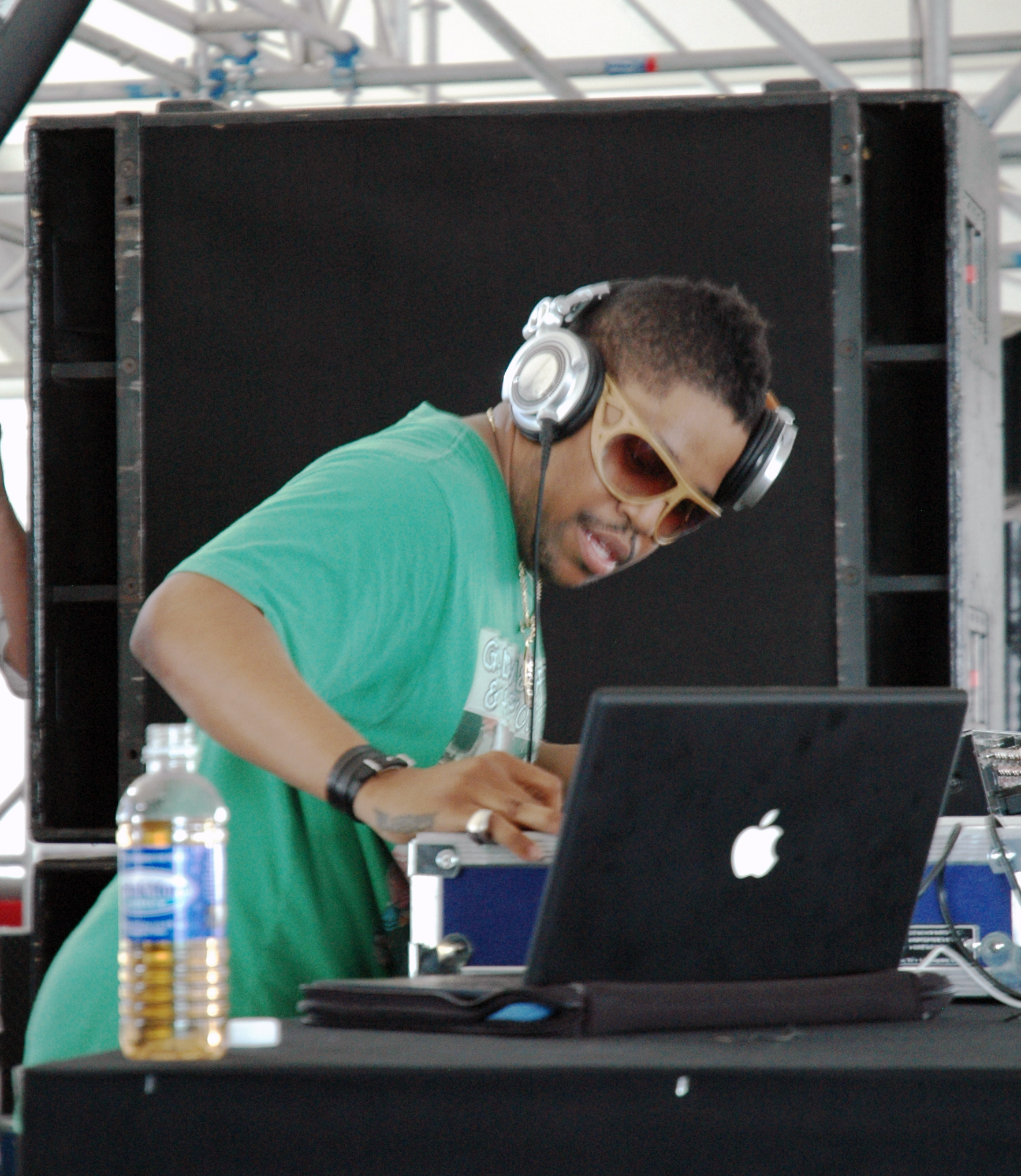 House music DJ Felix da Housecat performing at Virgin Festival, Baltimore, USA, August 2007 (cf. [1])